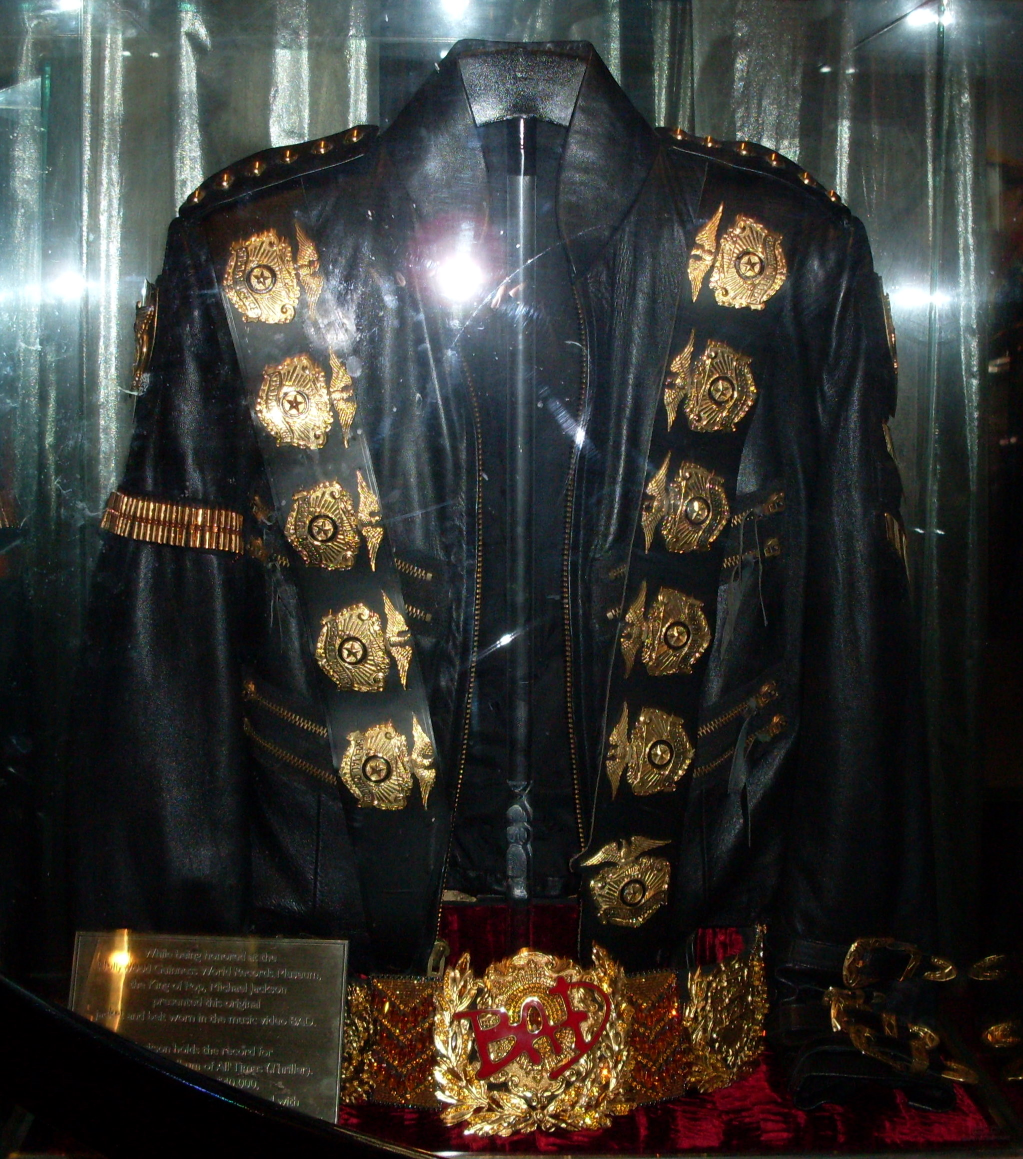 Jacket and belt worn by Michael Jackson in the video Bad. “While being honored at the Hollywood Guinness World of Records museum, the King of Pop, Michael Jackson, presented this original jacket and belt worn in the music video BAD. Jackson holds the record for the Best Selling Album of All Times (Thriller). Valued at over $40,000, the jacket and belt are emblazoned with 12 pounds of 24-karat gold and crystal decorations. ”